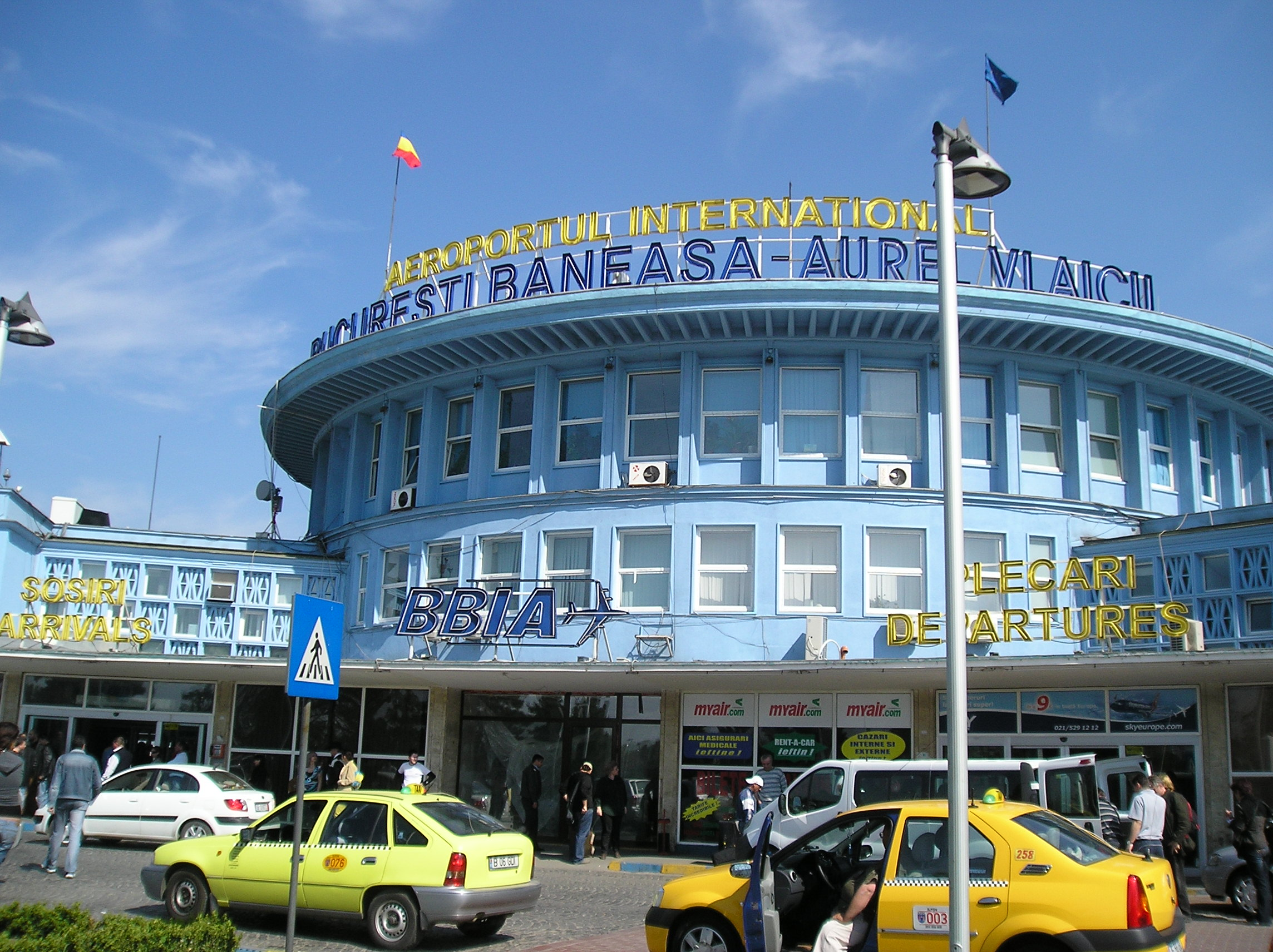 Picture of Baneasa Airport, Bucharest taken by me on 9th April 2007.